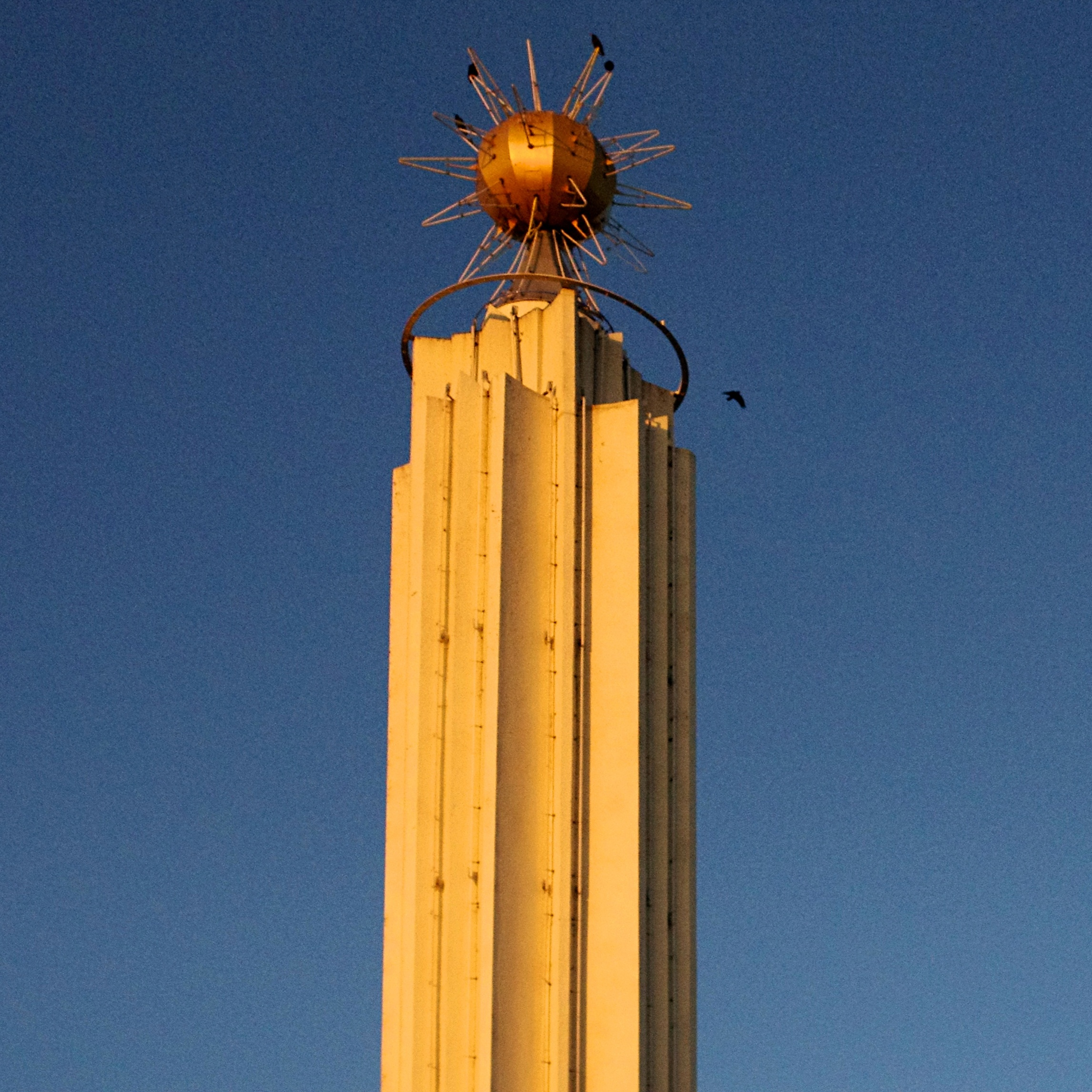 Detail of the spire of the NRHP-listed Tower Theatre in Fresno, California.